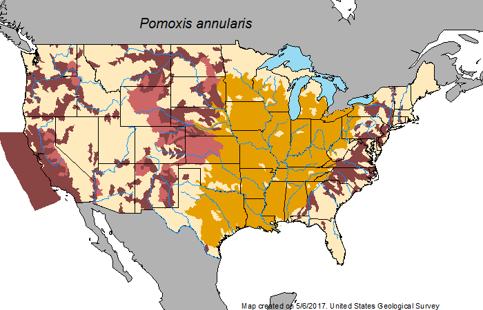 white crappie distribution map